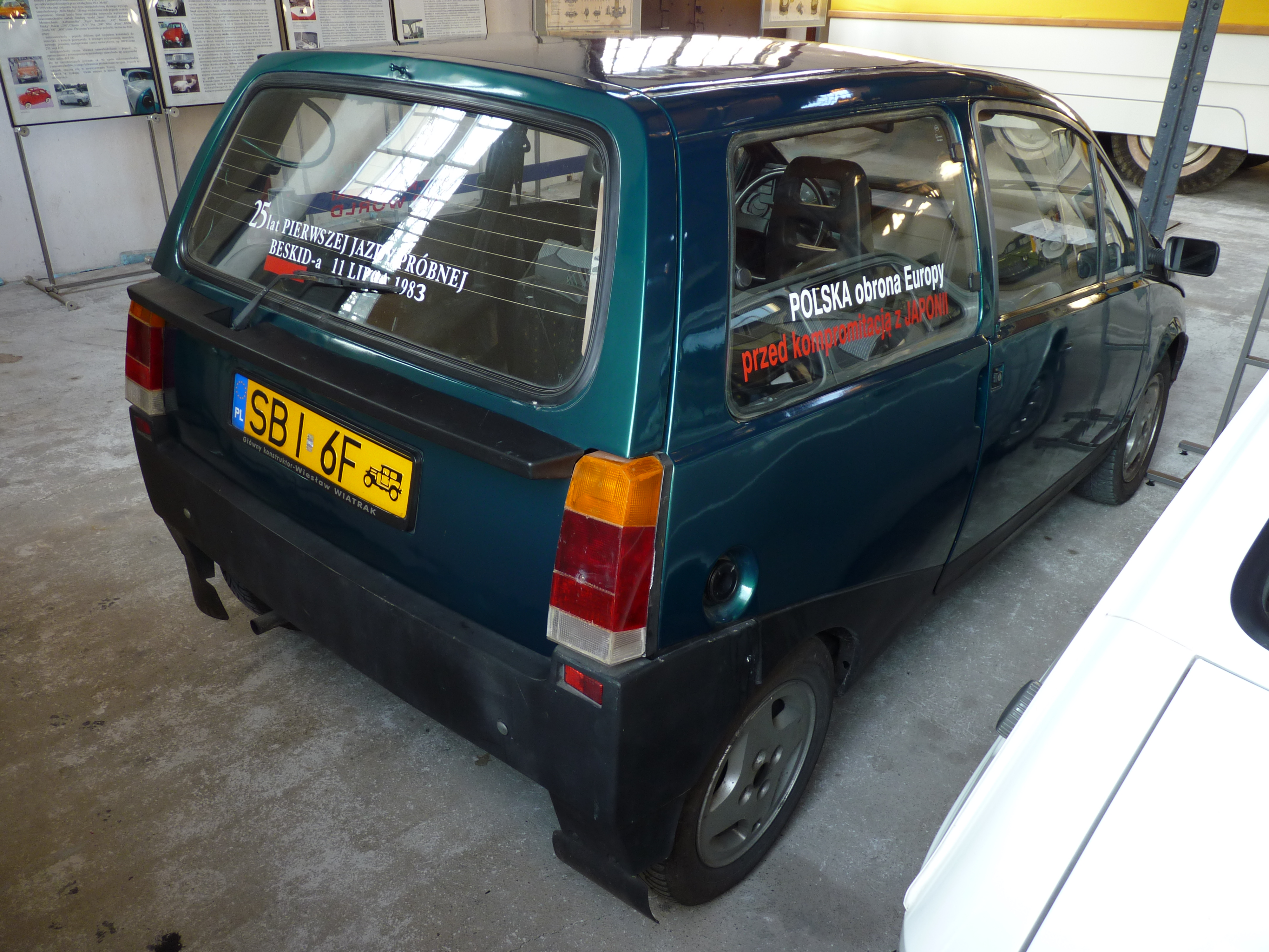 FSM Beskid 105 car at the Muzeum Inżynierii Miejskiej in Kraków, Poland.